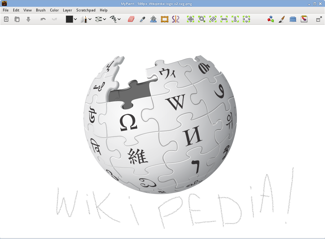 This is a screenshot of MyPaint v1.1.0 freshly installed with the logo of Wikipedia openned in it. This is supposed to give you a simple representation about what MyPaint looks like when you first start it.